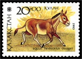 Onager (Equus hemionus), a Kazakhstan stamp, 20, 1993